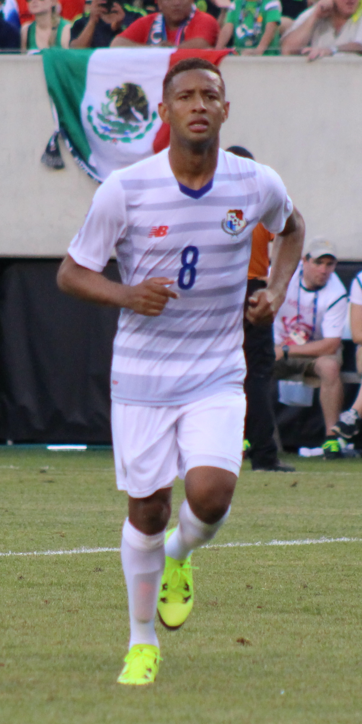 Gabriel Arturo Torres